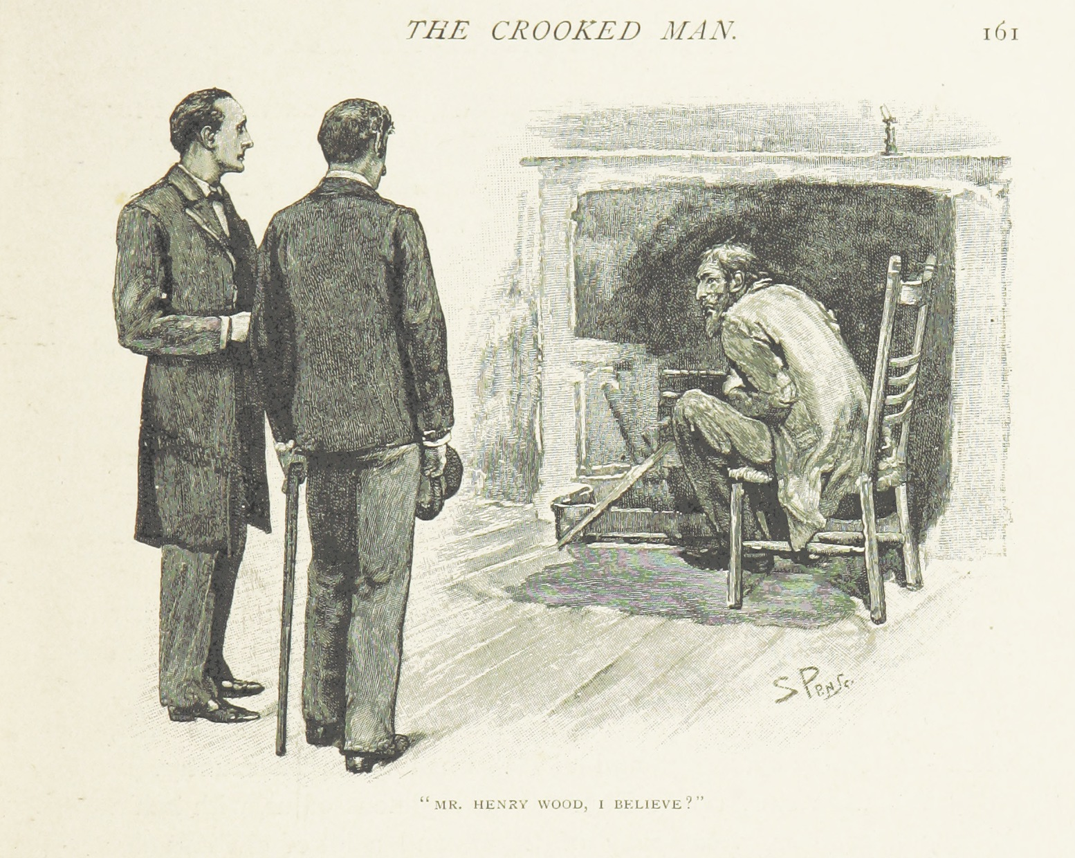 Image taken from: Title: "The Memoirs of Sherlock Holmes", "Single Works" Author: Doyle, Arthur Conan - Sir Illustrator: Sidney Paget (1860 - 1908) Shelfmark: "British Library HMNTS 012634.m.16.", "British Library HMNTS 12650.dd.41." Page: 175 Place of Publishing: London Date of Publishing: 1894 Publisher: G. Newnes Issuance: monographic Identifier: 000977577 All the illustrations in this book